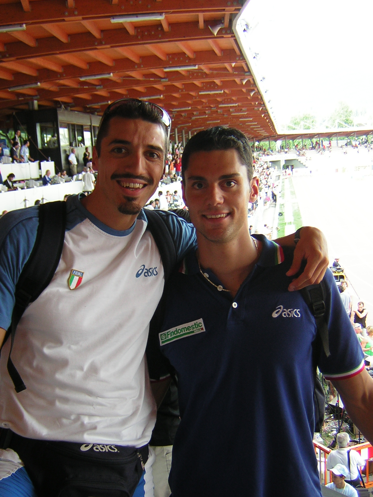 Europea cup Firenze 2005, Andrea Giaconi and Stefano Anceschi